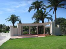 Bayway Isles Entryway Fountain, St. Petersburg, Florida, USA